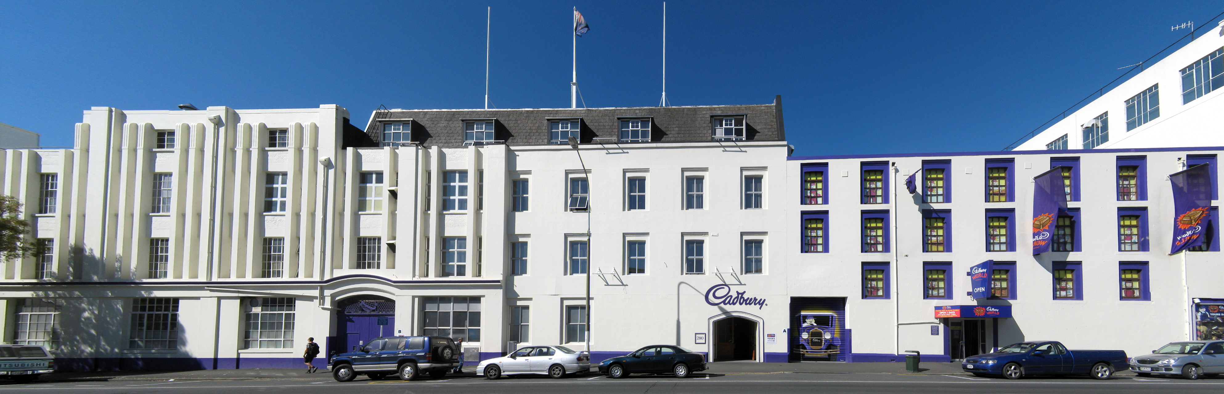 Panoramic picture of Dunedin Cadbury Factory from Cumberland Street.